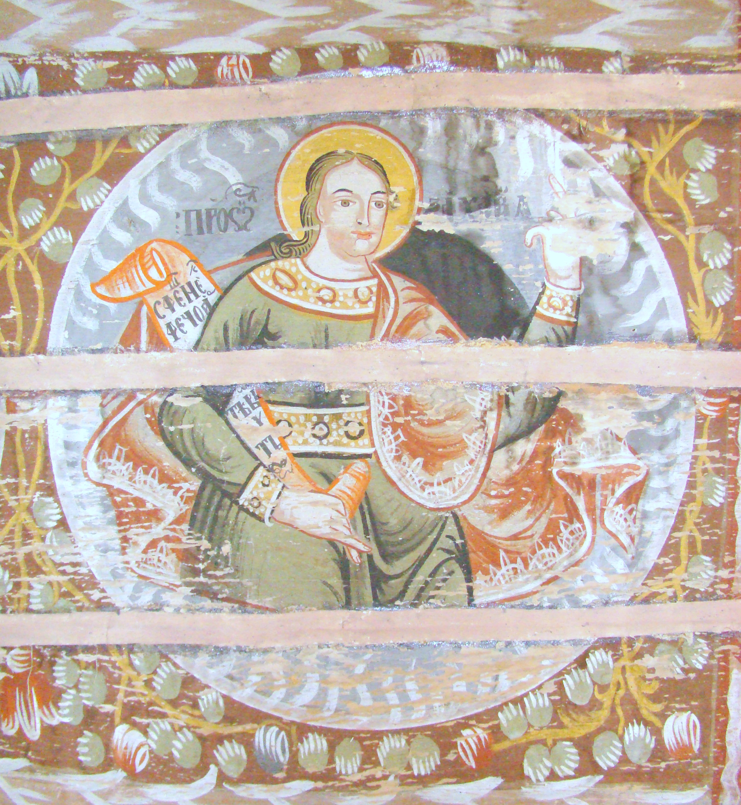 Wooden church in Micănești, Hunedoara county